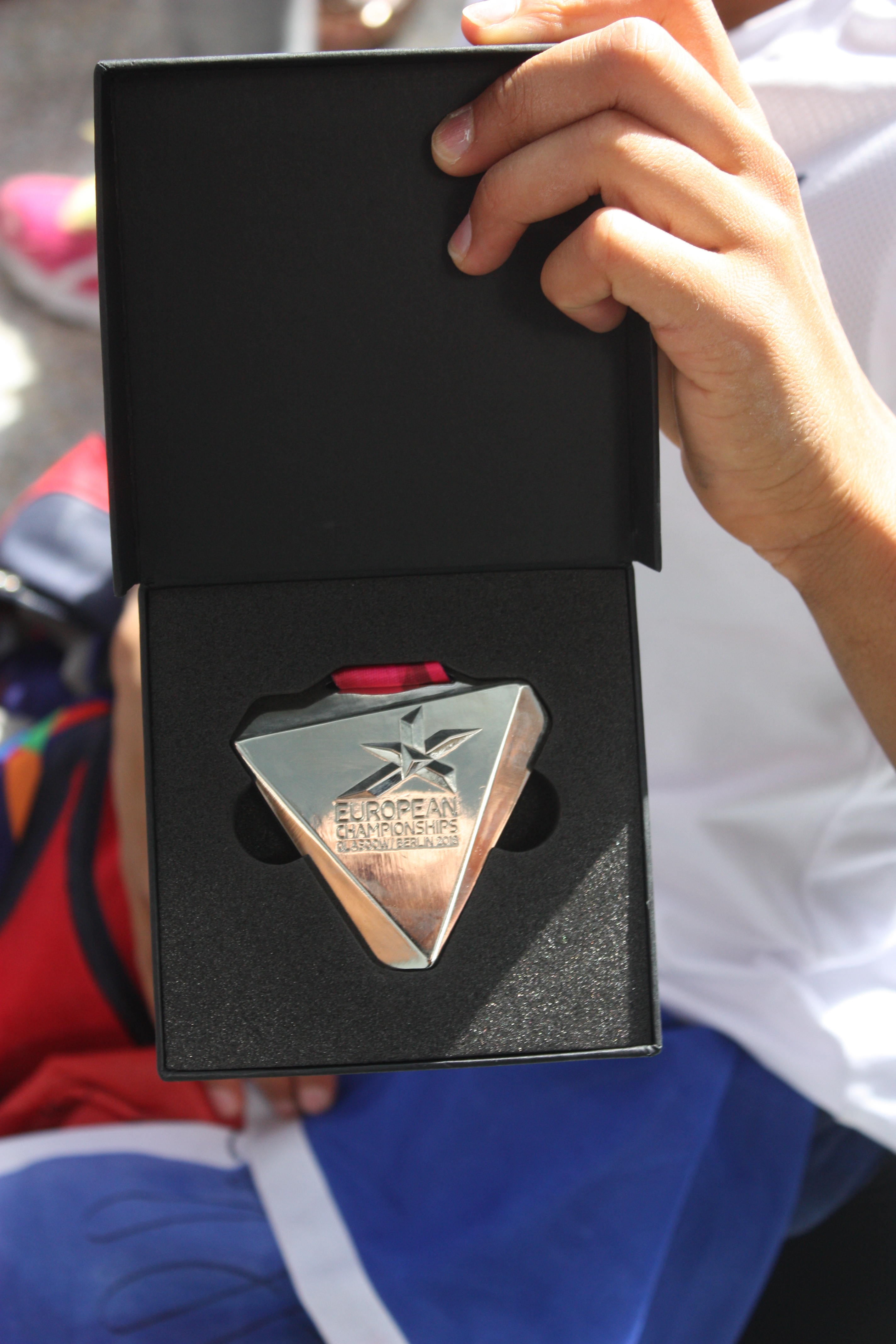 Team silver medal of Mélanie de Jesus dos Santos at the 2018 European Championships in Glasgow.